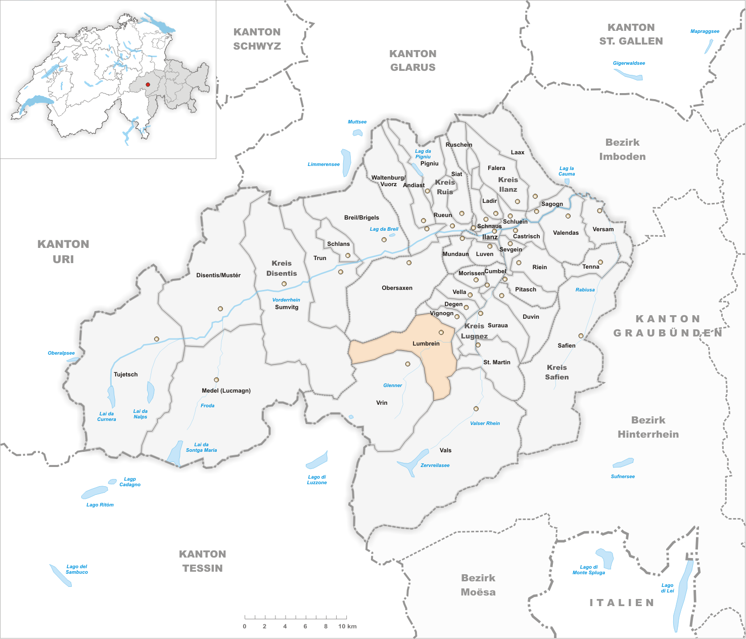 Municipality Lumbrein